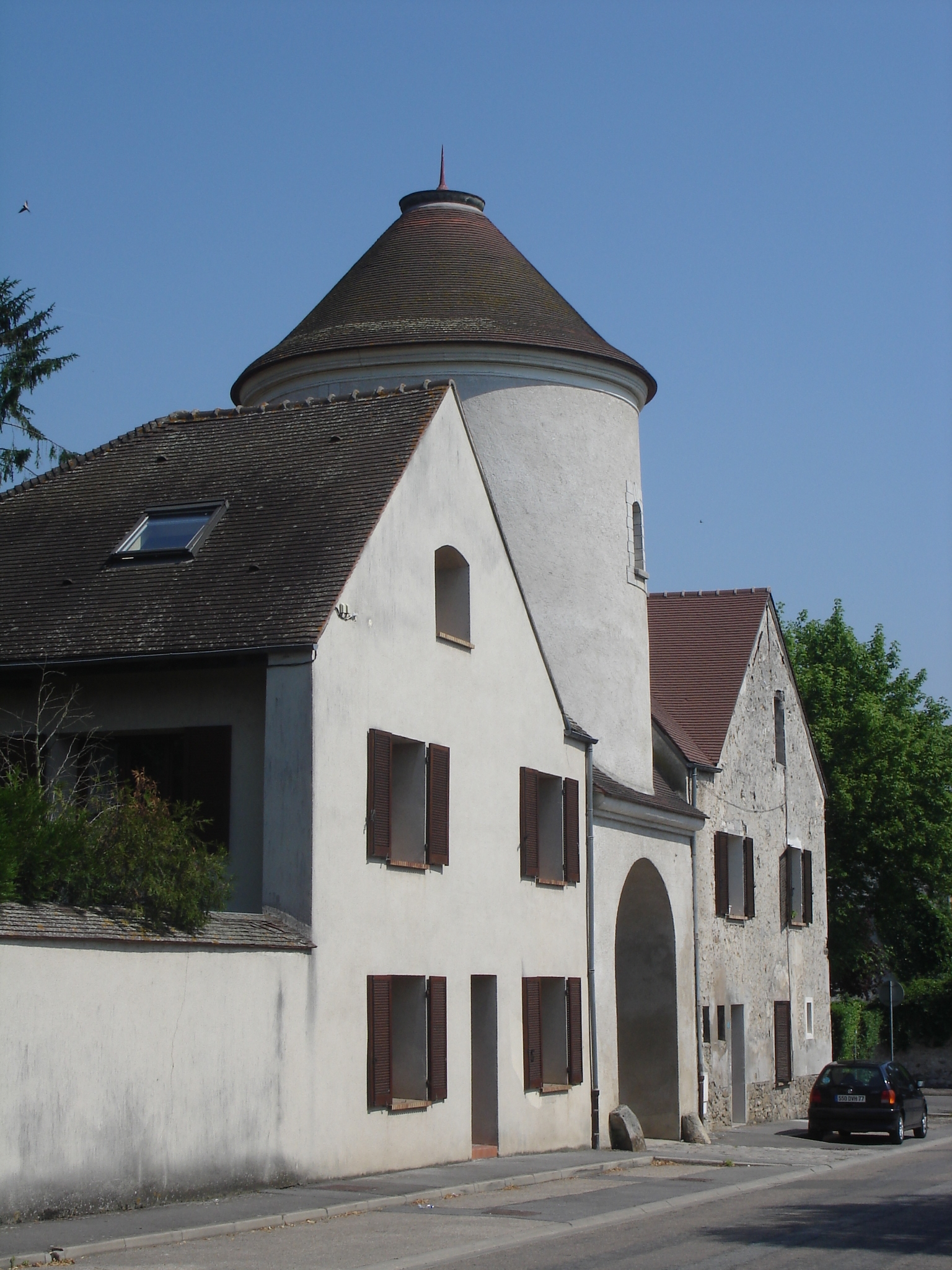 Fortified gate of the "Chateau de Sannois" in the village of Annet-sur-Marne, Île-de-France (France)